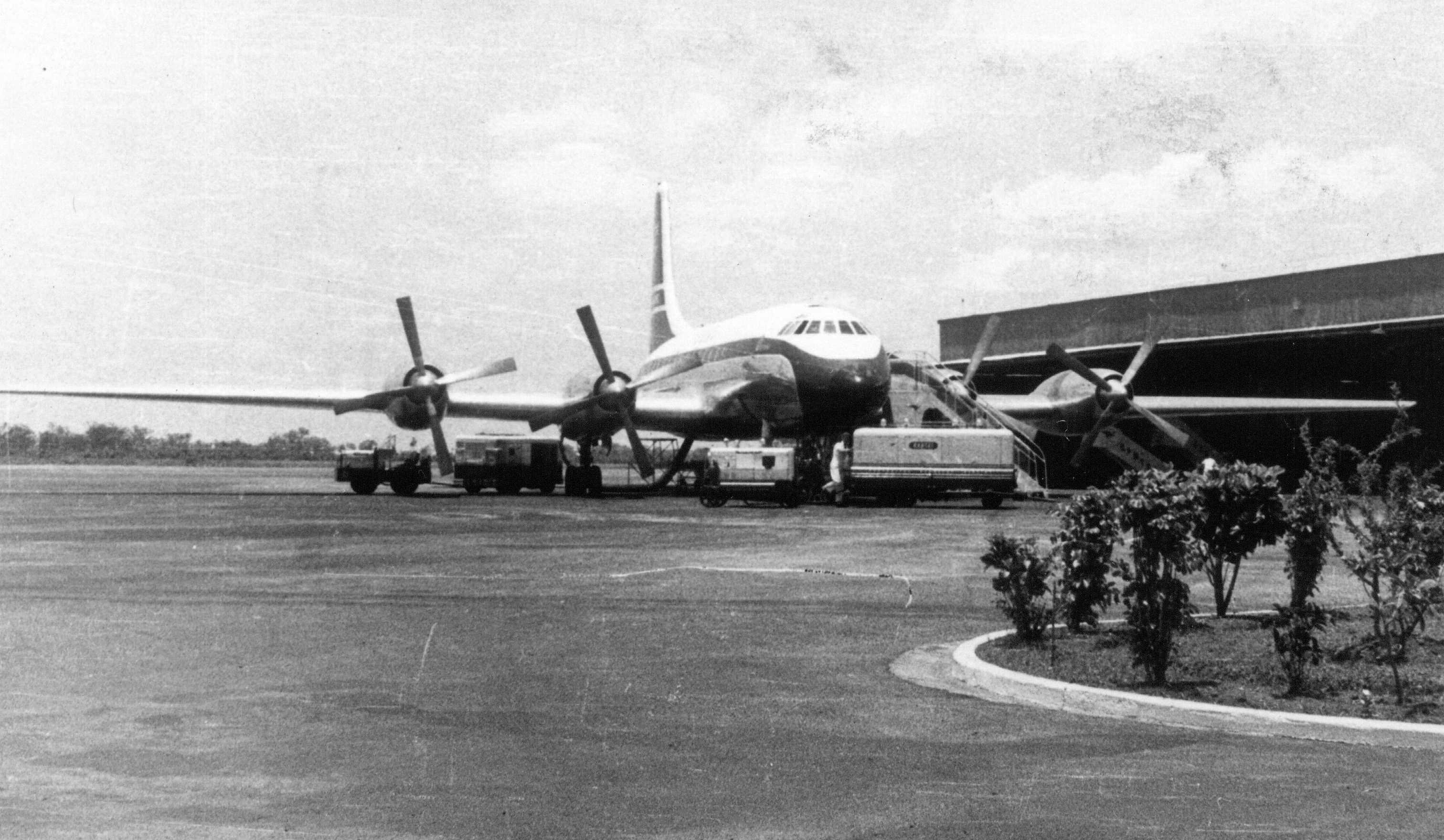 BOAC Britannia at Darwin's civil terminal in 1958.